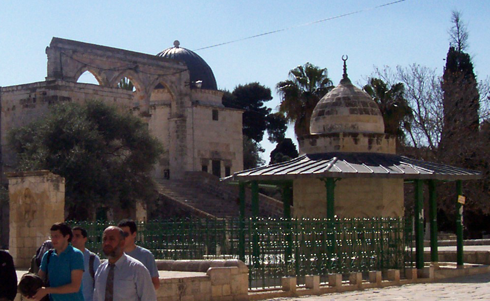 Old Jerusalem, Temple Mount, cupola - monk building at west of temple mount